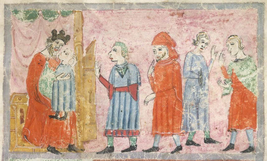 Joseph kissing Benjamin. From the Haggadah for Passover (the 'Sister Haggadah').